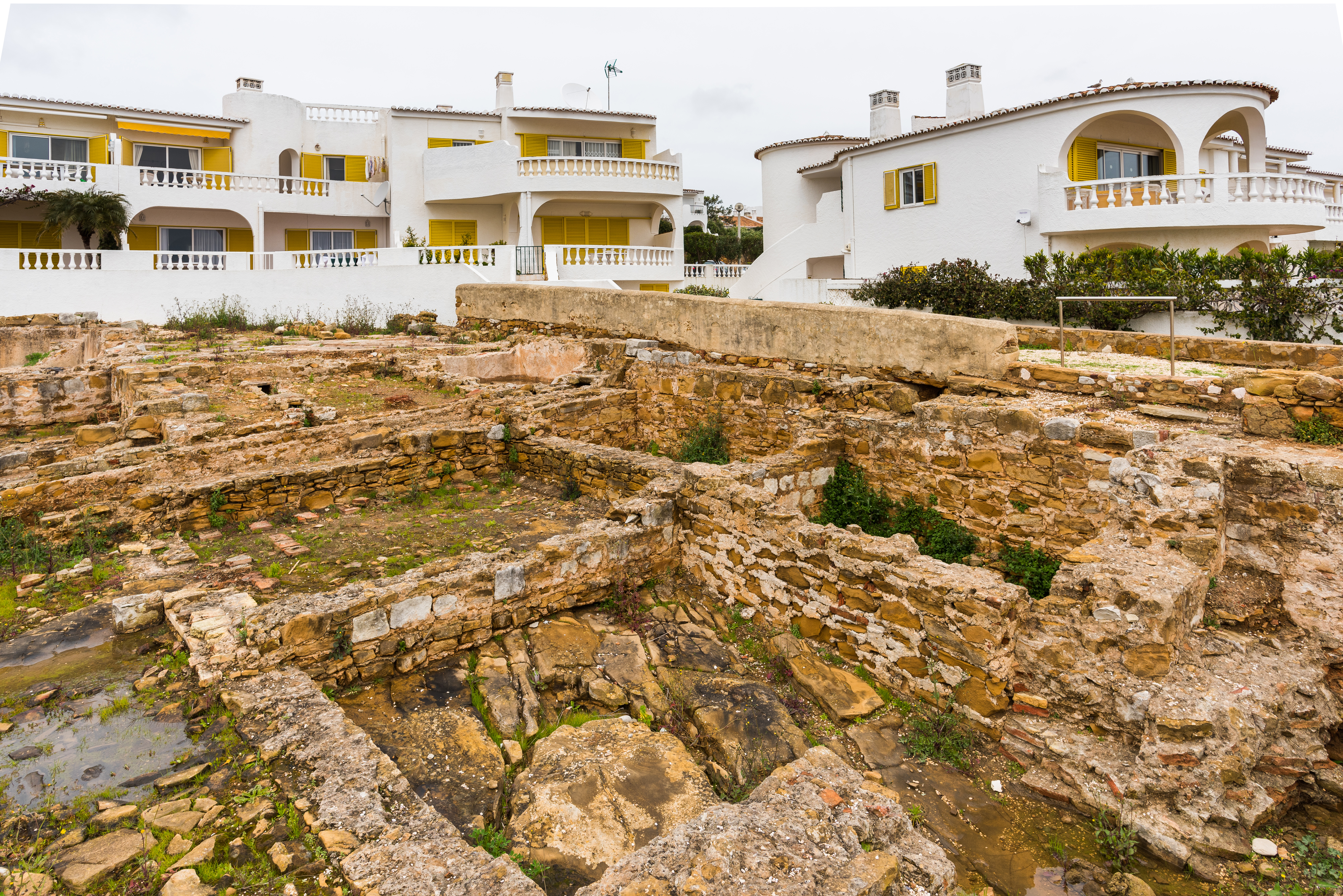 Praia da Luz Portugal February 2915